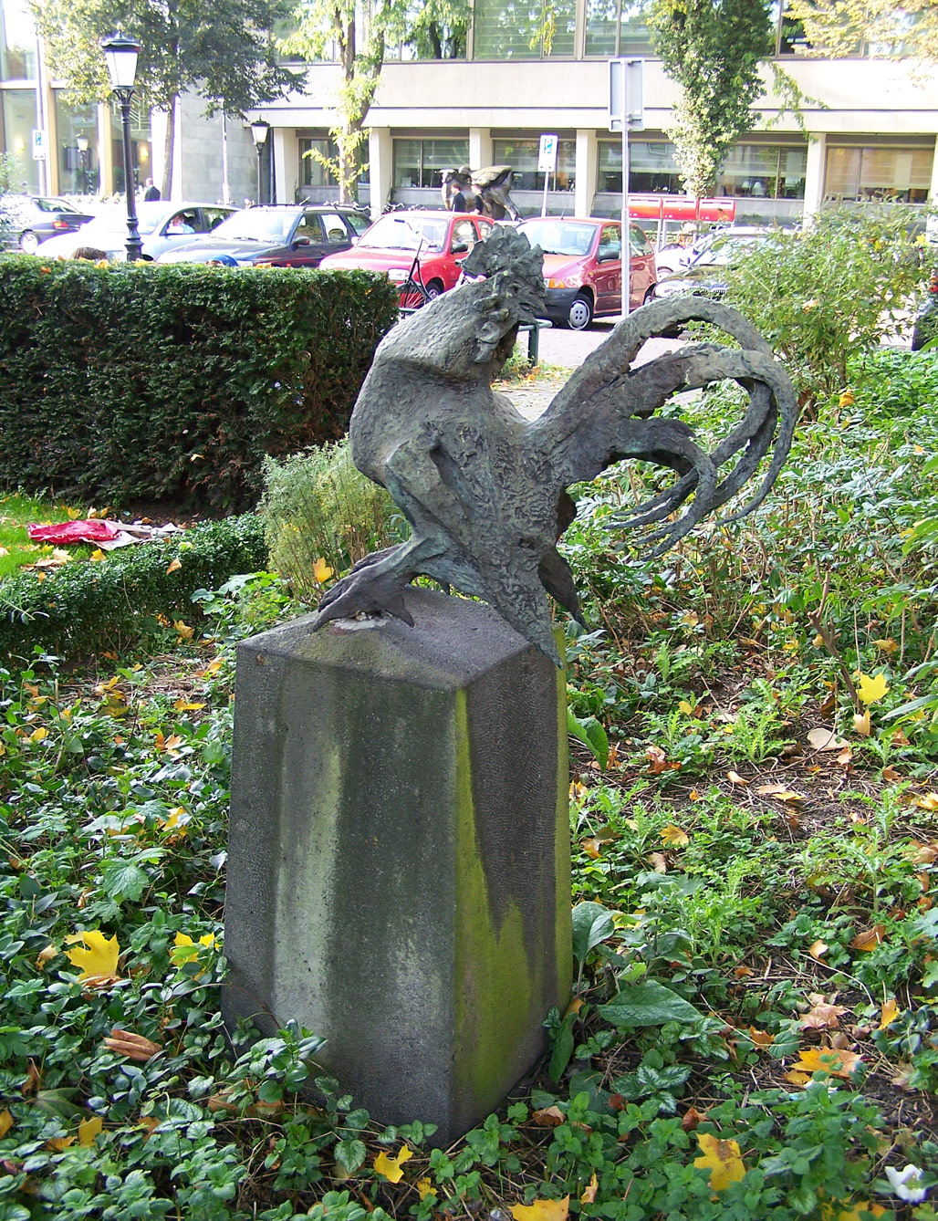 Gallo_Nuovo (New Rooster) by Luciano Minguzzi in 1954, placed at the Mariahoek in Utrecht in 1957.